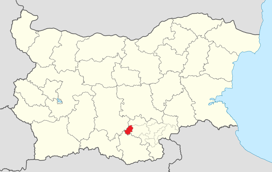 Location map of Mineralni Bani Municipality within Bulgaria and Haskovo Province